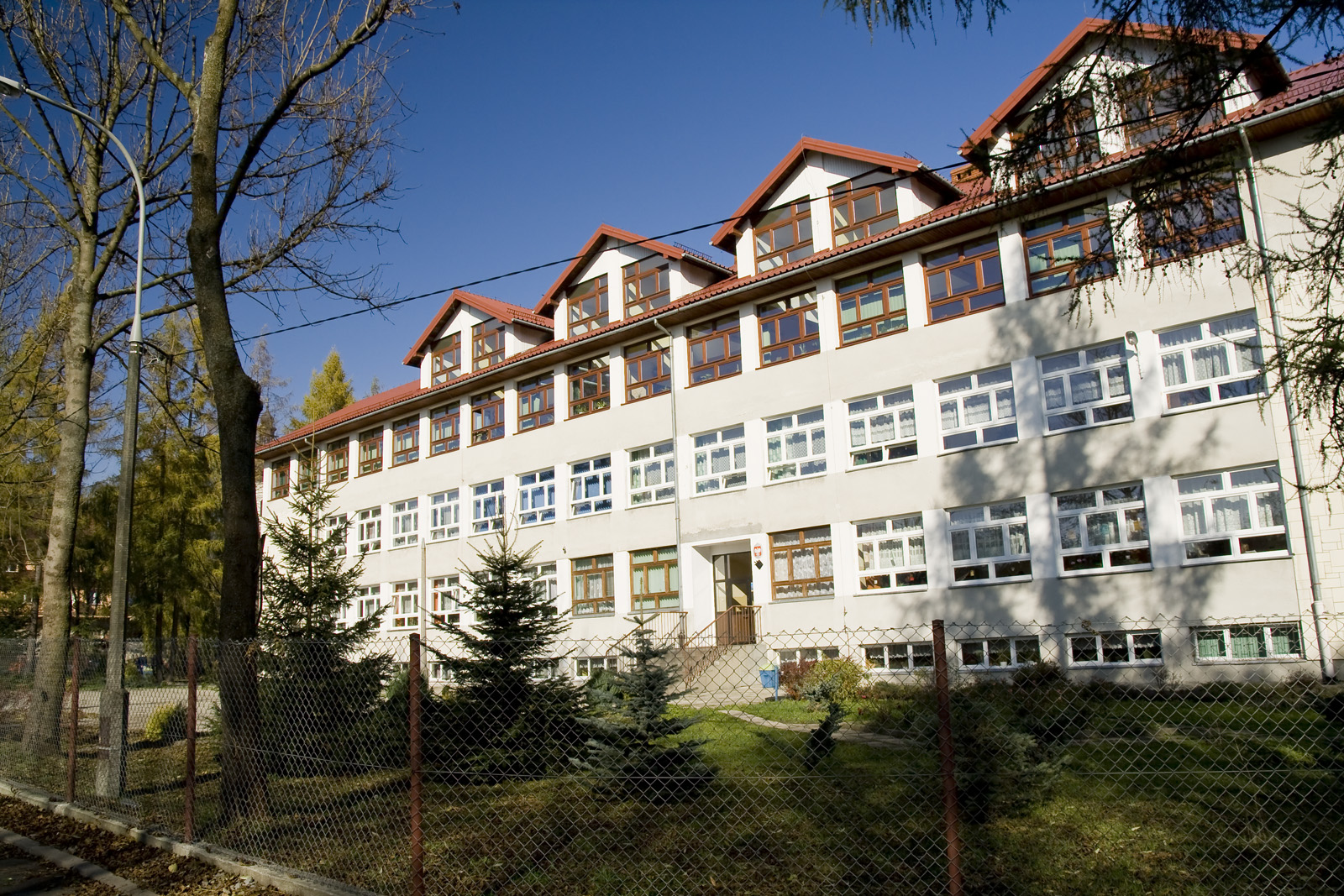 School in Sidzina